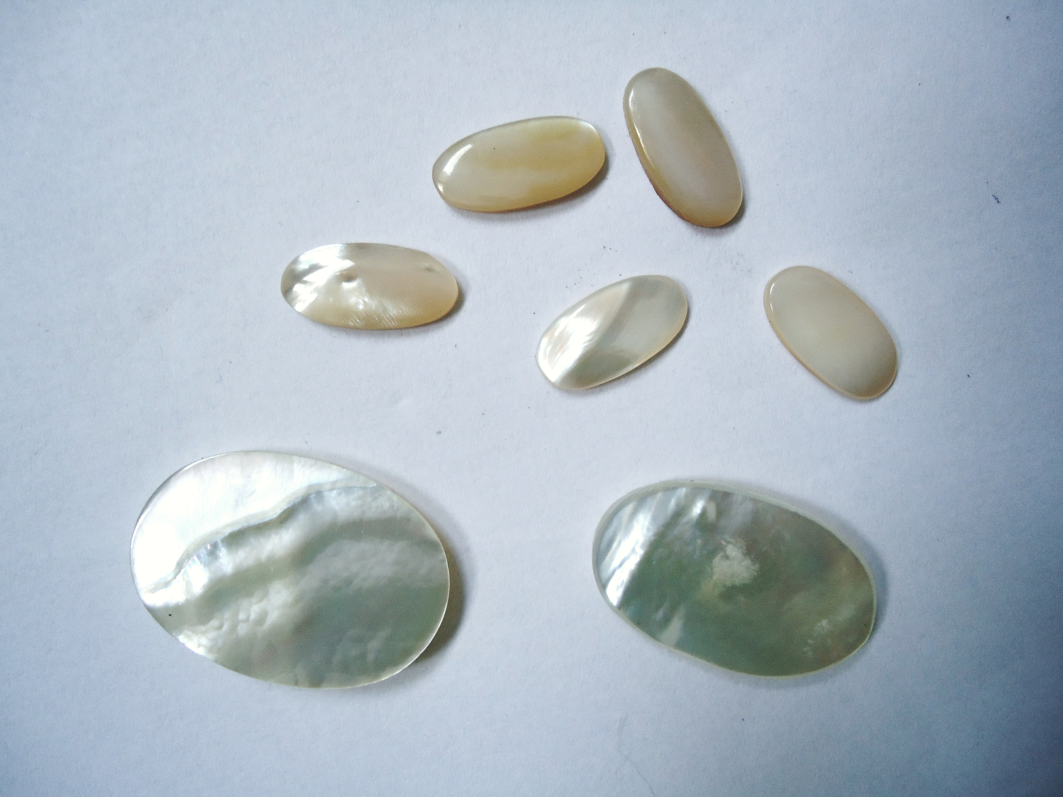 Mother of pearl. Photo : Mauro Cateb